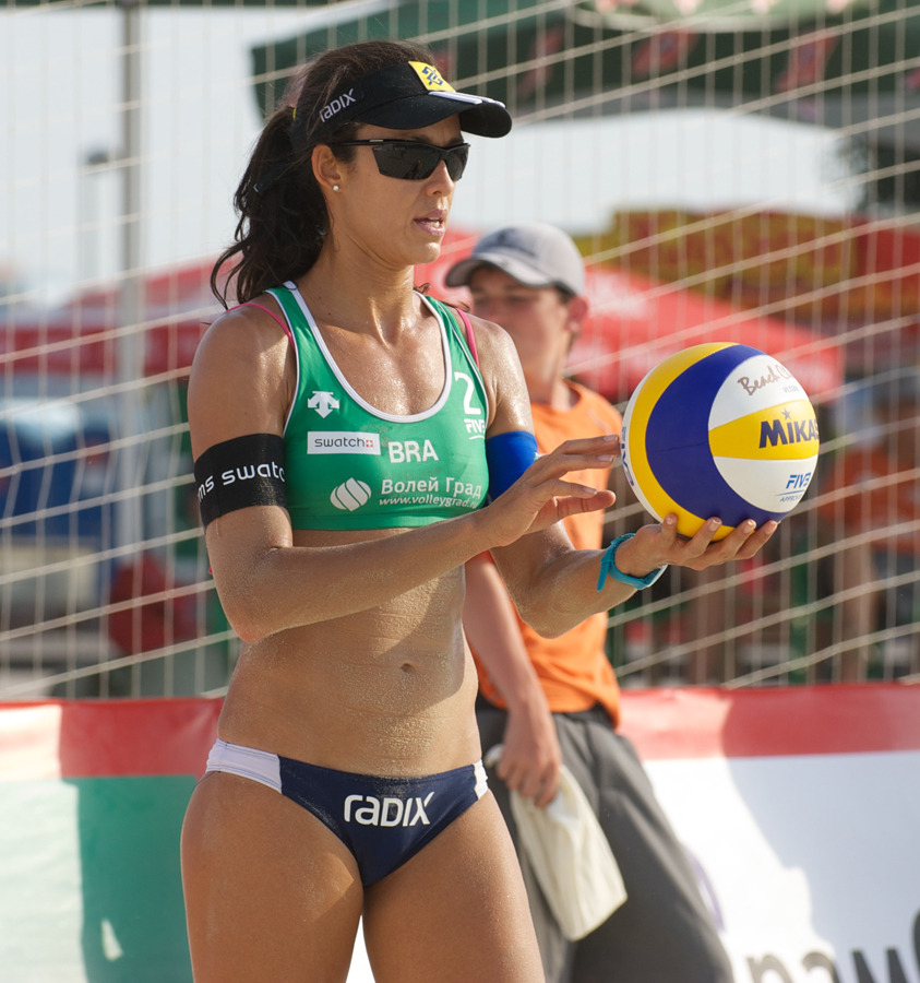 Grand Slam Moscow 2011